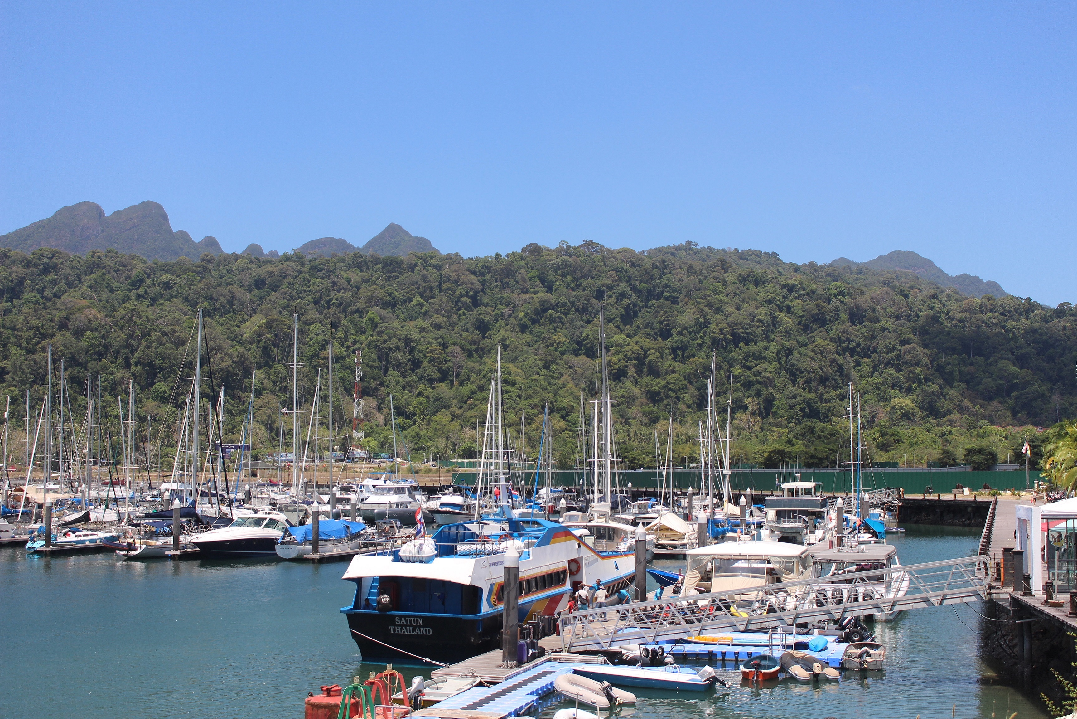 Boat Ride